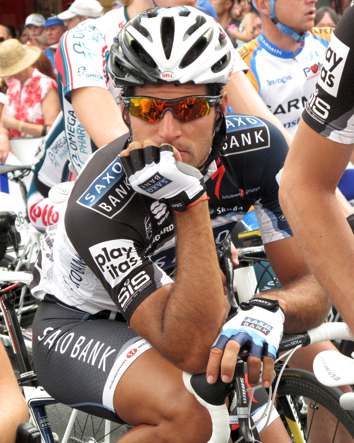 Juan Jose Haedo of Team Saxo Bank waiting for the start of Stage 4 of the 2010 Tour Down Under.